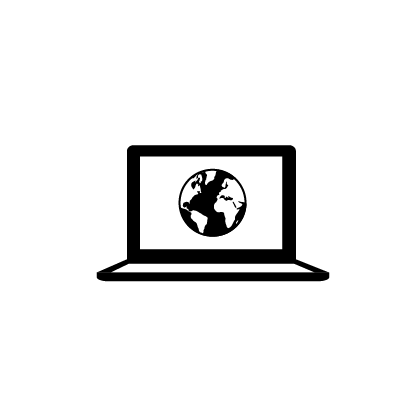 Laptop with world